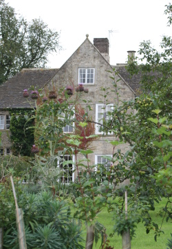 Harrowby Hall, Harrowby, Grantham, Lincolnshire, England